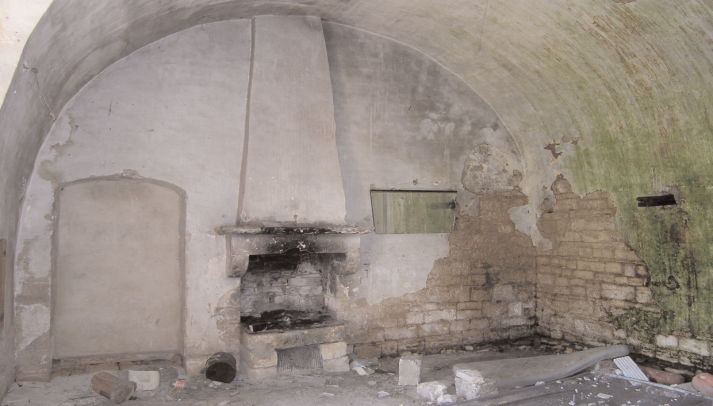 Jazzo Pilella in Ruvo di Puglia